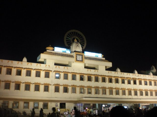 Varanasi railway station